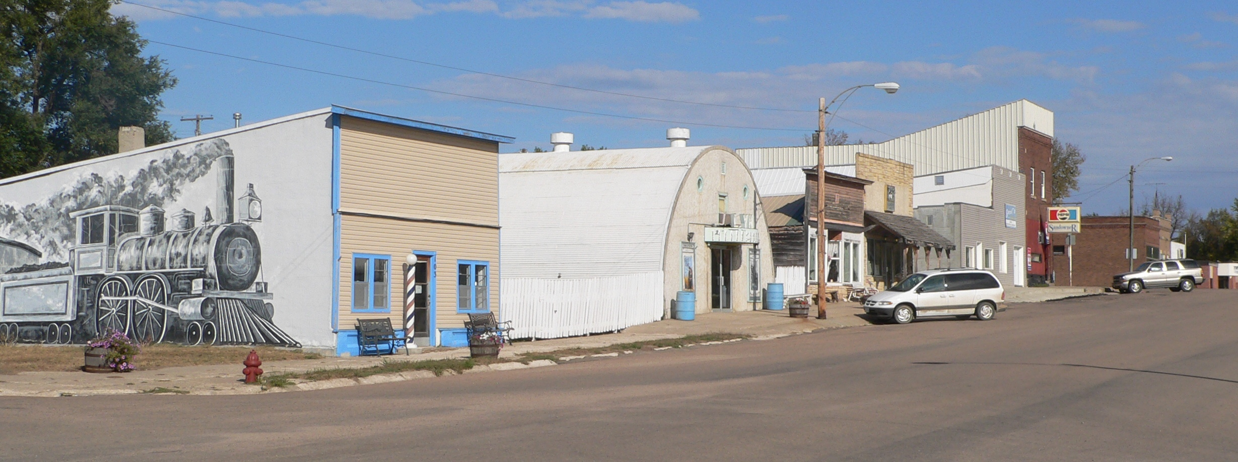 Downtown Lynch, Nebraska: west side of 4th Street, looking northwest from about Ponca Street.